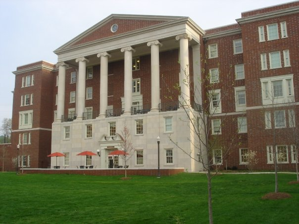 The Commons, located on the Peabody campus, is part of the new College Halls system at Vanderbilt.